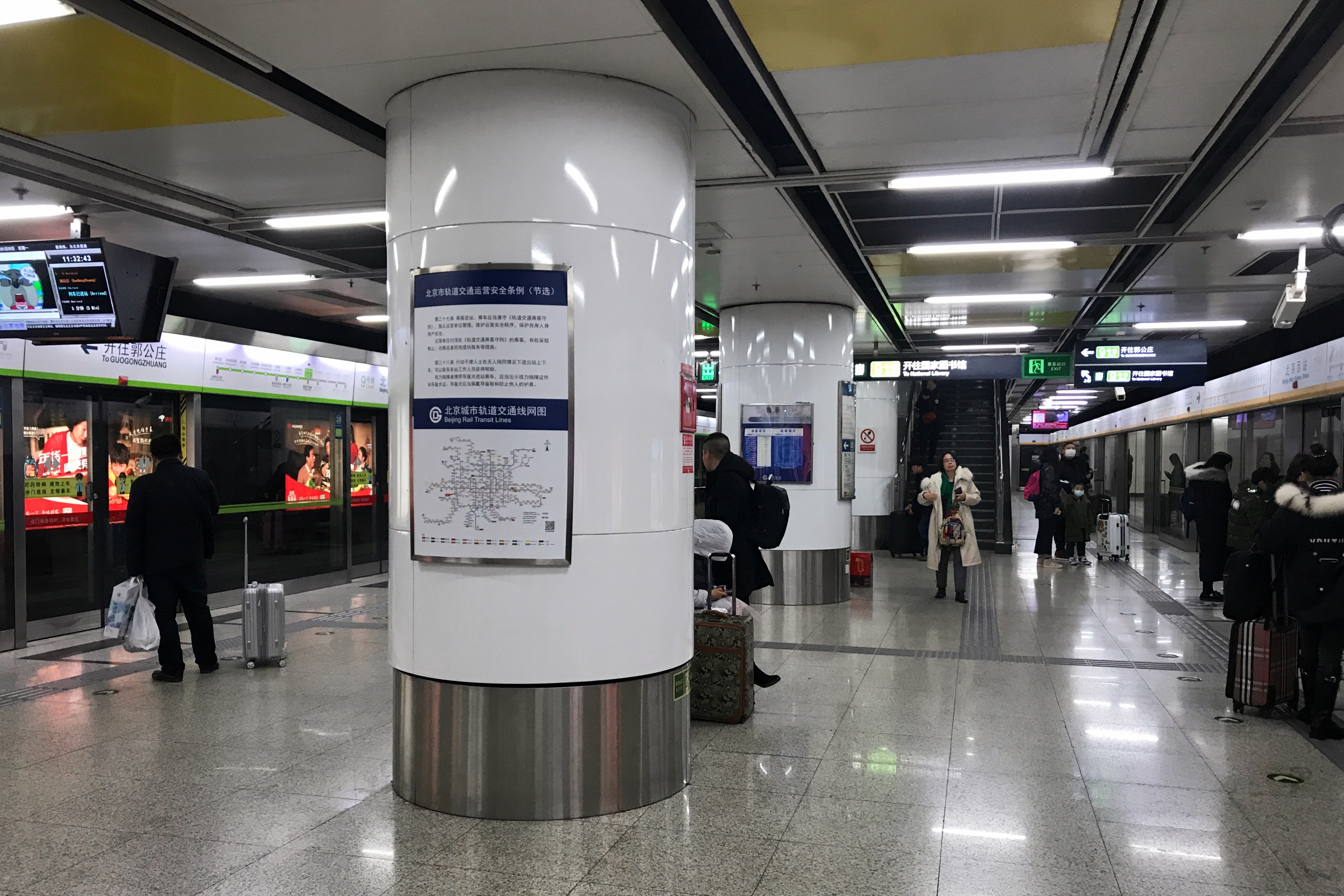 Beijing West Railway Station Subway Platform for Line 9 towards GUOGONGZHUANG and Line 7 to HUAZHUANG